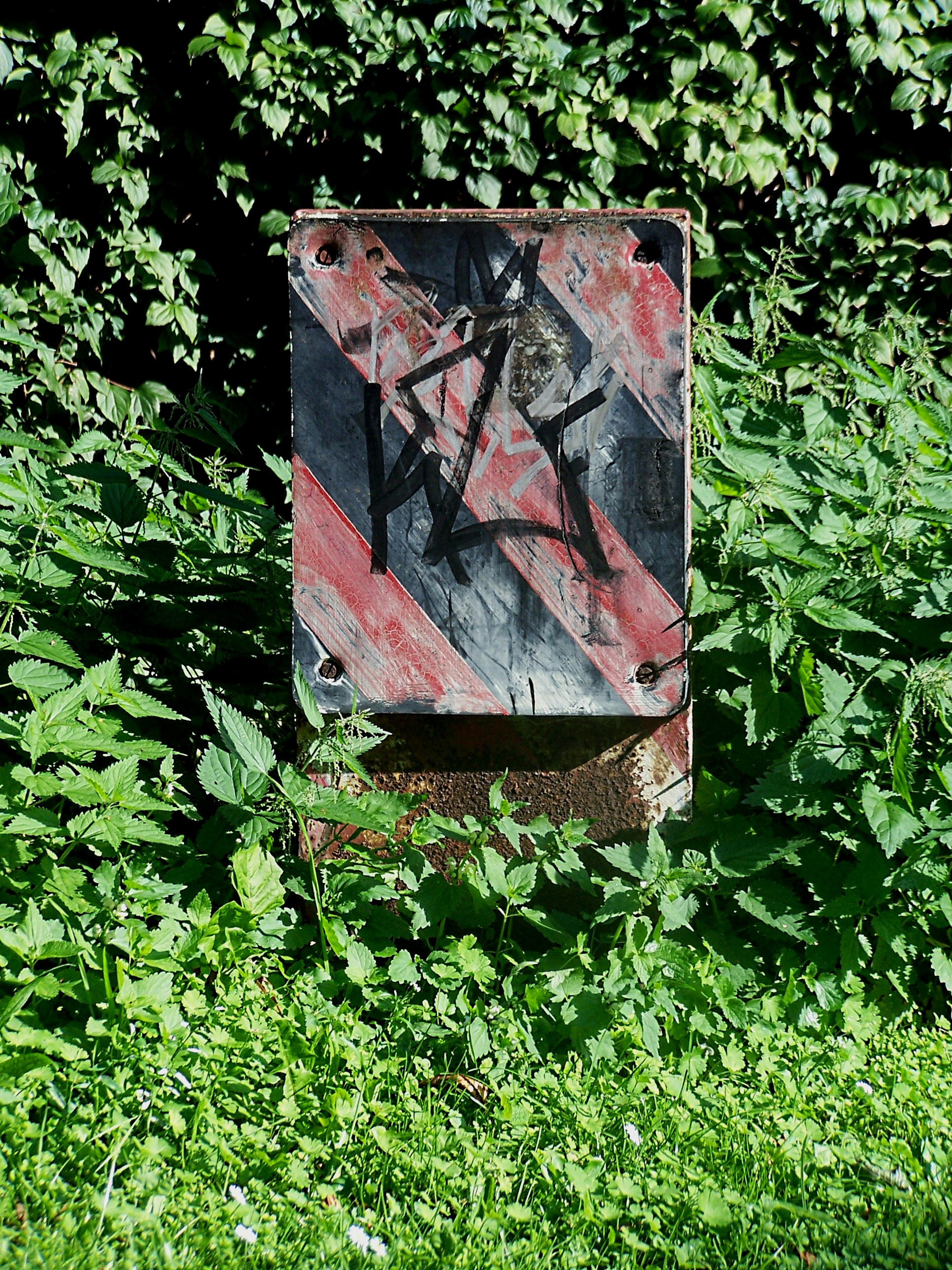 buffer stop at the former tram turning area Roederbergweg, used until June 1st 1985 of the Frankfurt tramway in Frankfurt-Ostend